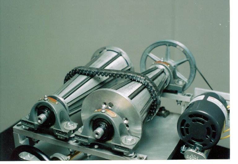 CVT transmission. Photo: Fred Anderson